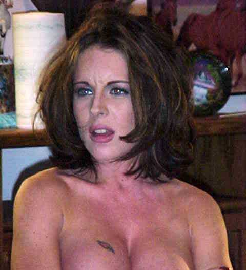 Azlea Antistia, taken at the 2000 AVN Adult Entertainment Expo in Las Vegas, Nevada. Original photo courtesy of used with permission (see here). Subsequently cropped by Tabercil to trim away unneeded nudity. Original image taken from the Wayback Machine's archive of Luke Ford's old site, as found here